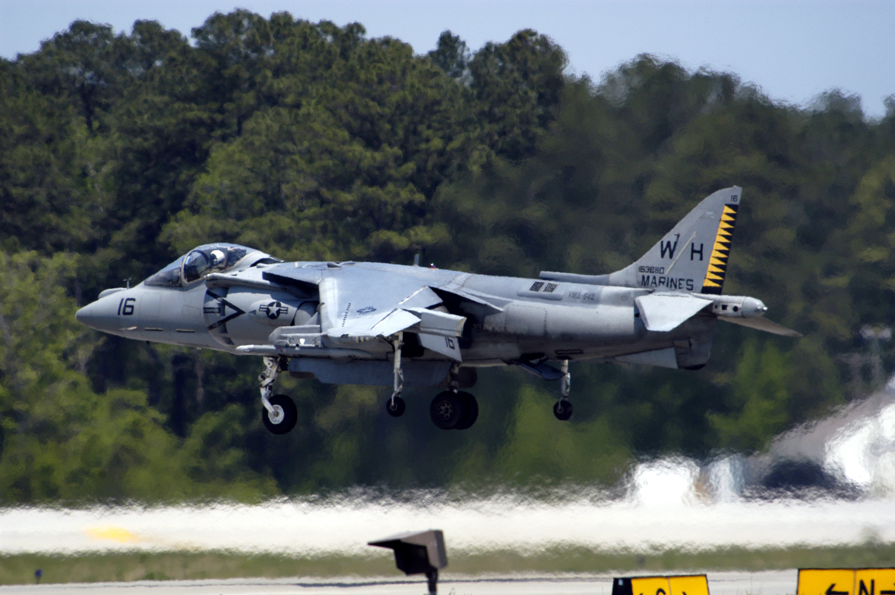 Cherry Point, N.C. (May 7, 2005) - An AV-8B Harrier II, assigned to the "Tigers" of Marine Attack Squadron Five Four Two (VMA-542), takes off vertically during its flight demonstration at the 2005 Marine Corps Air Station Cherry Point air show. The AV-8B is a high performance, single-engine, single-seat, Vertical/Short Take-off and Landing (V/STOL) attack aircraft. This year's air show showcased civilian and military aircraft from the Nation's armed forces, which provided many flight demonstrations and static displays. U.S. Navy photo by Photographer's Mate 2nd Class Daniel J. McLain (RELEASED)